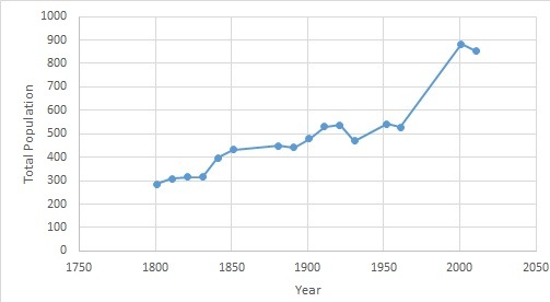 Total population of Knodishall, Suffolk, as reported by the Census population from 1801 to 2011.